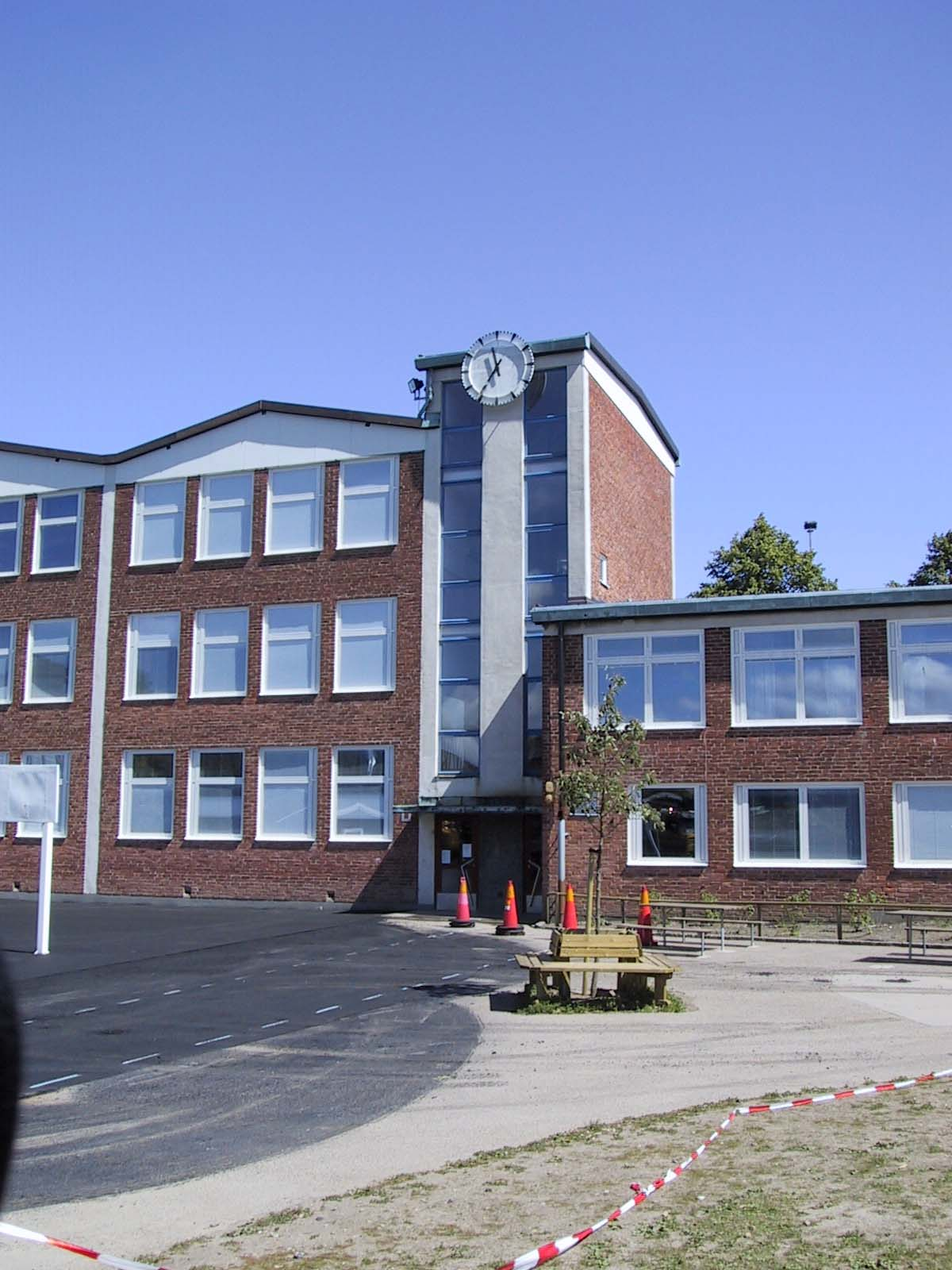 Mellanhedsskolan